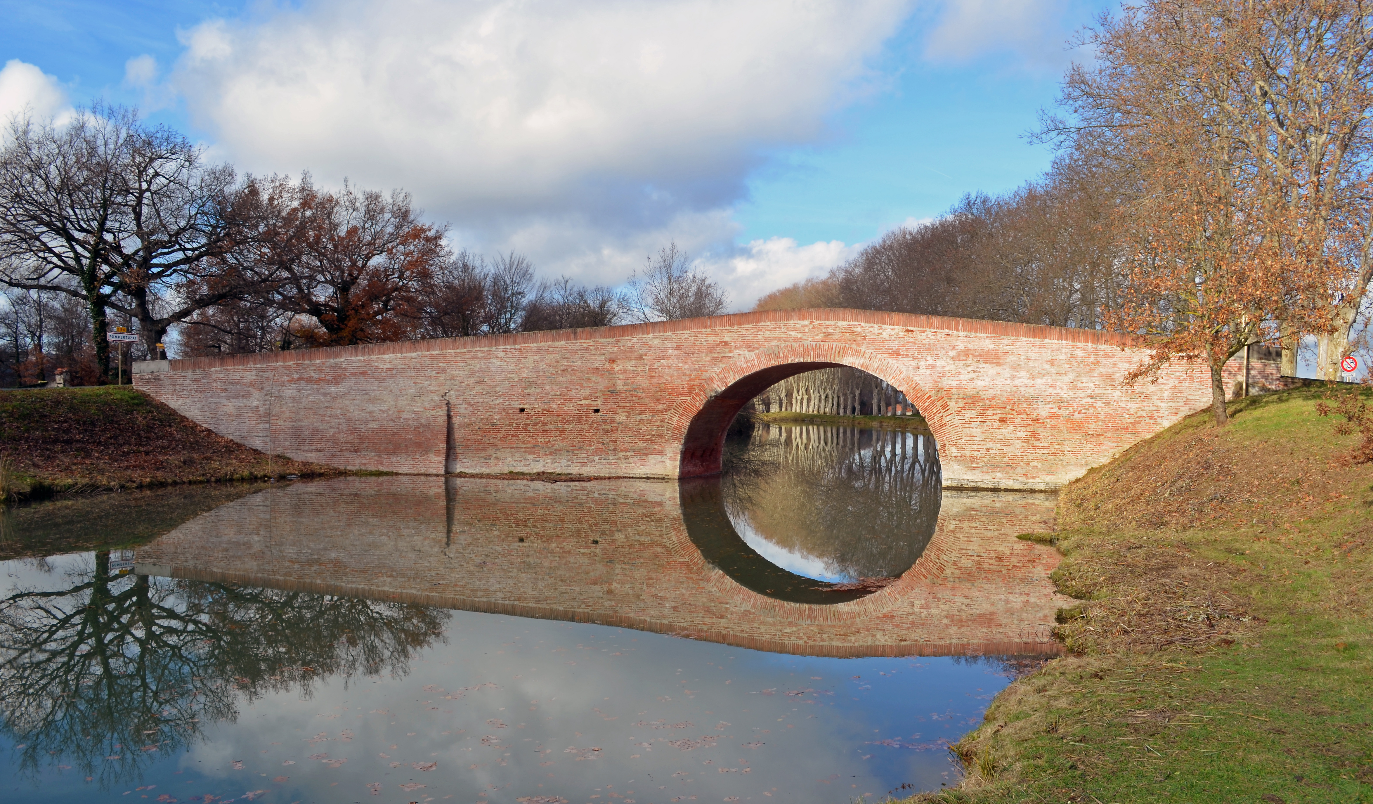 Bridge of Deyme, Canal du Midi - Pompertuzat (Haute-Garonne) .